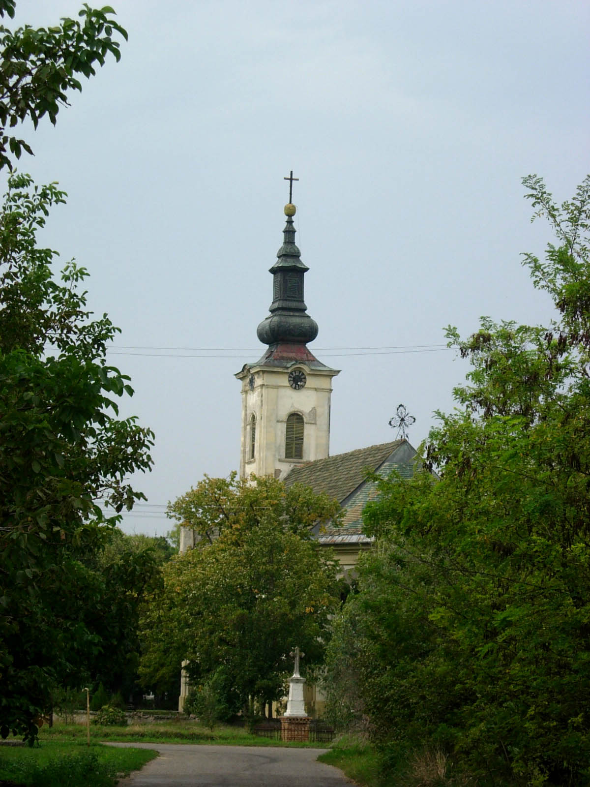 The Orthodox church in Srpski Itebej.